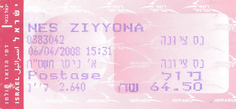 Stamp from Ness Ziona